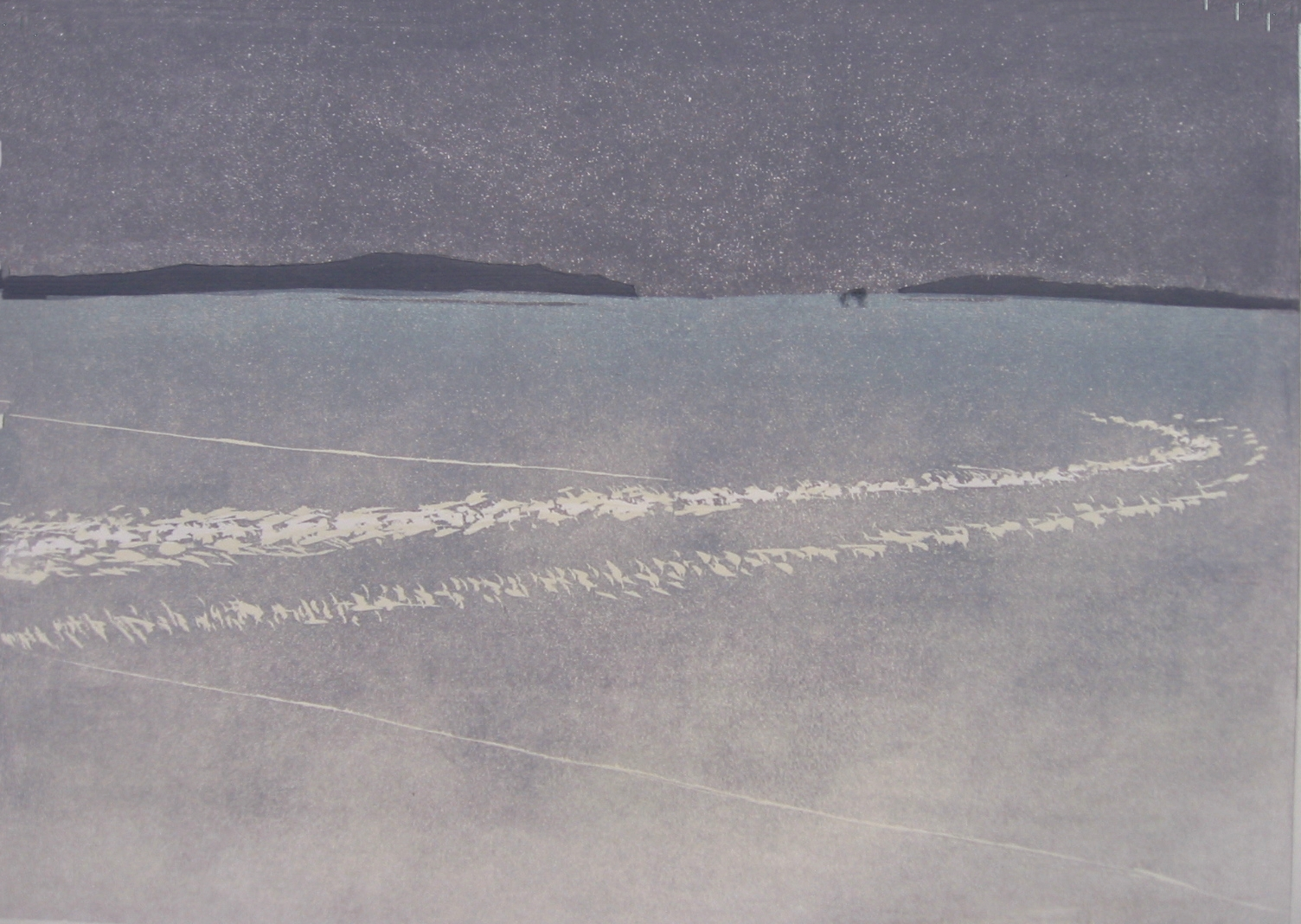 D 21 winter I